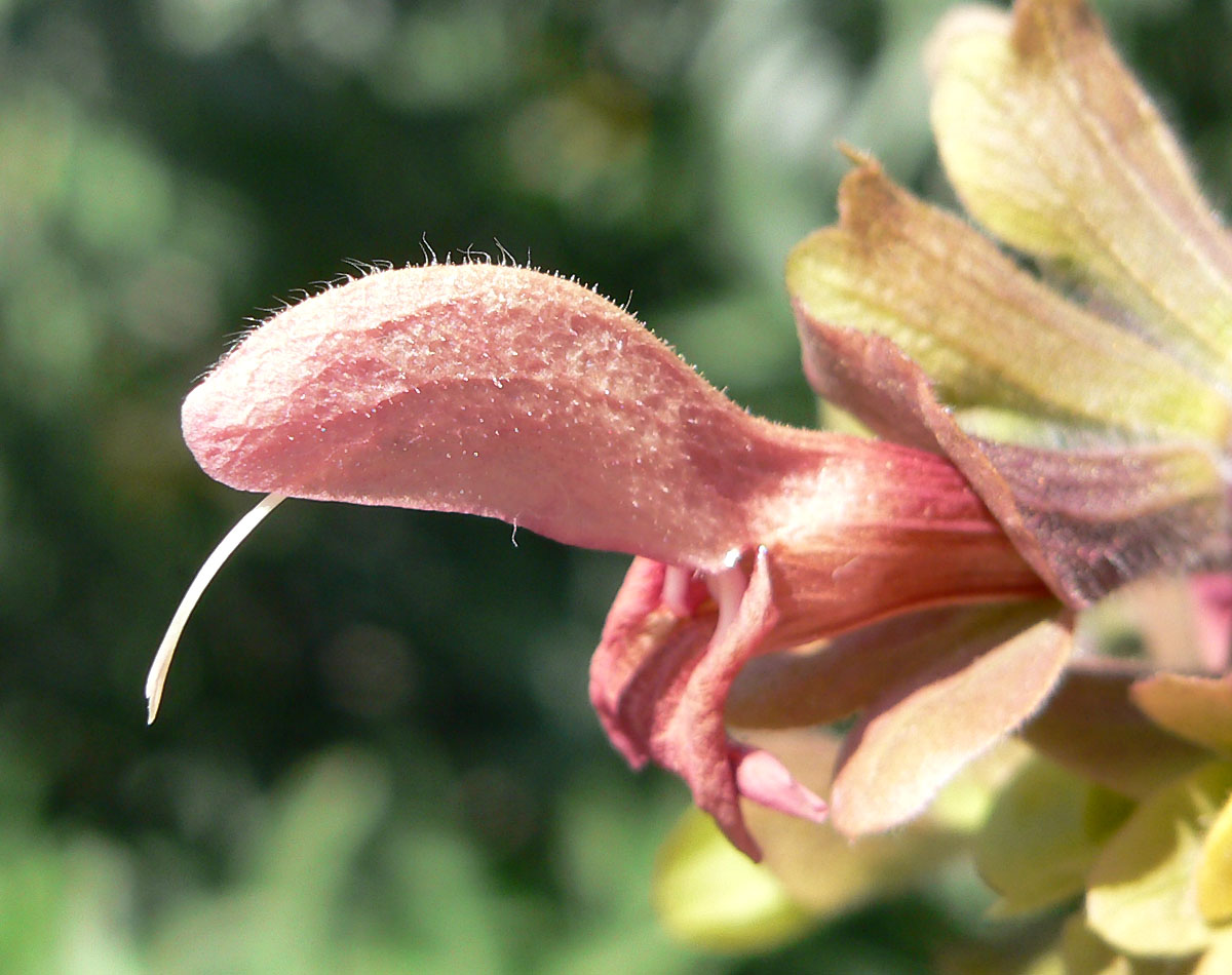 Salvia lanceolata at the University of California Botanical Garden, Berkeley, California